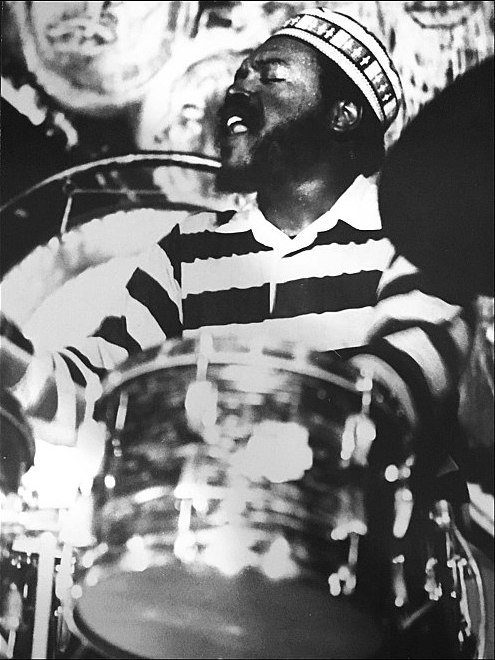 Photo of Roy Brooks